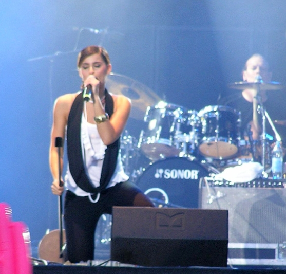 Nelly Furtado at Rock im Park 2006, Nuremberg